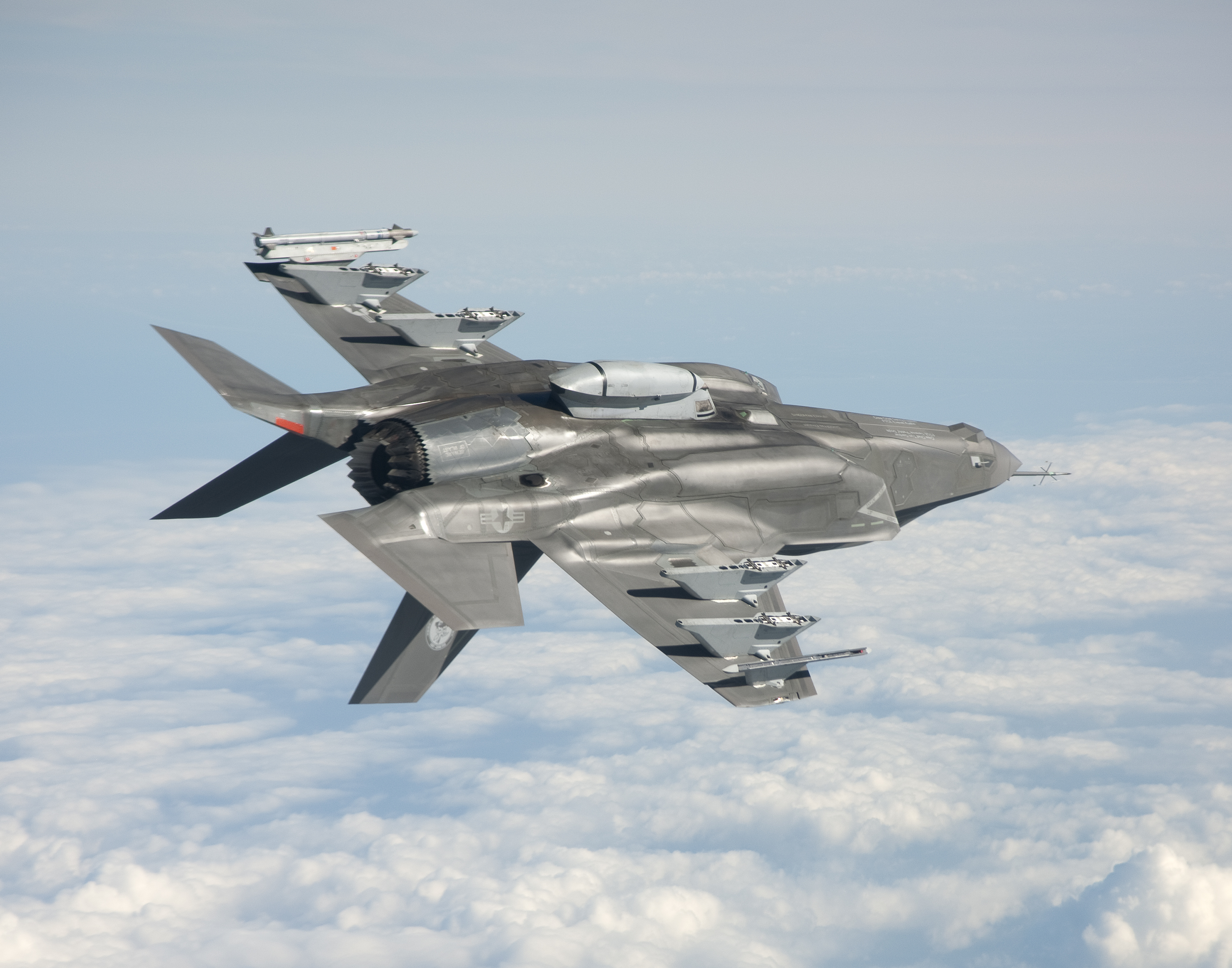 PATUXENT RIVER, Md. – On June 14, F-35B Joint Strike Fighter test aircraft BF-2 completed the first test flight for the short takeoff and vertical landing variant with an asymmetric weapons load. Cmdr. Eric Buus flew BF-2 with an AIM-9X Sidewinder inert missile on the starboard pylon, a centerline 25 mm gun pod, and a GBU-32 and AIM-120 in the starboard weapon bay. Significant weapons testing for the F-35B and F-35C variants is in progress, including fit checks, captive carriage environment characterization, and pit drops. Aerial weapons separation testing is scheduled for this summer. The F-35B is the variant of the Joint Strike Fighter for the U.S. Marine Corps, capable of short take-offs and vertical landings for use on amphibious ships or expeditionary airfields to provide air power to the Marine Air-Ground Task Force. The F-35B is undergoing test and evaluation at NAS Patuxent River prior to delivery to the fleet. (Photo courtesy of Lockheed Martin)